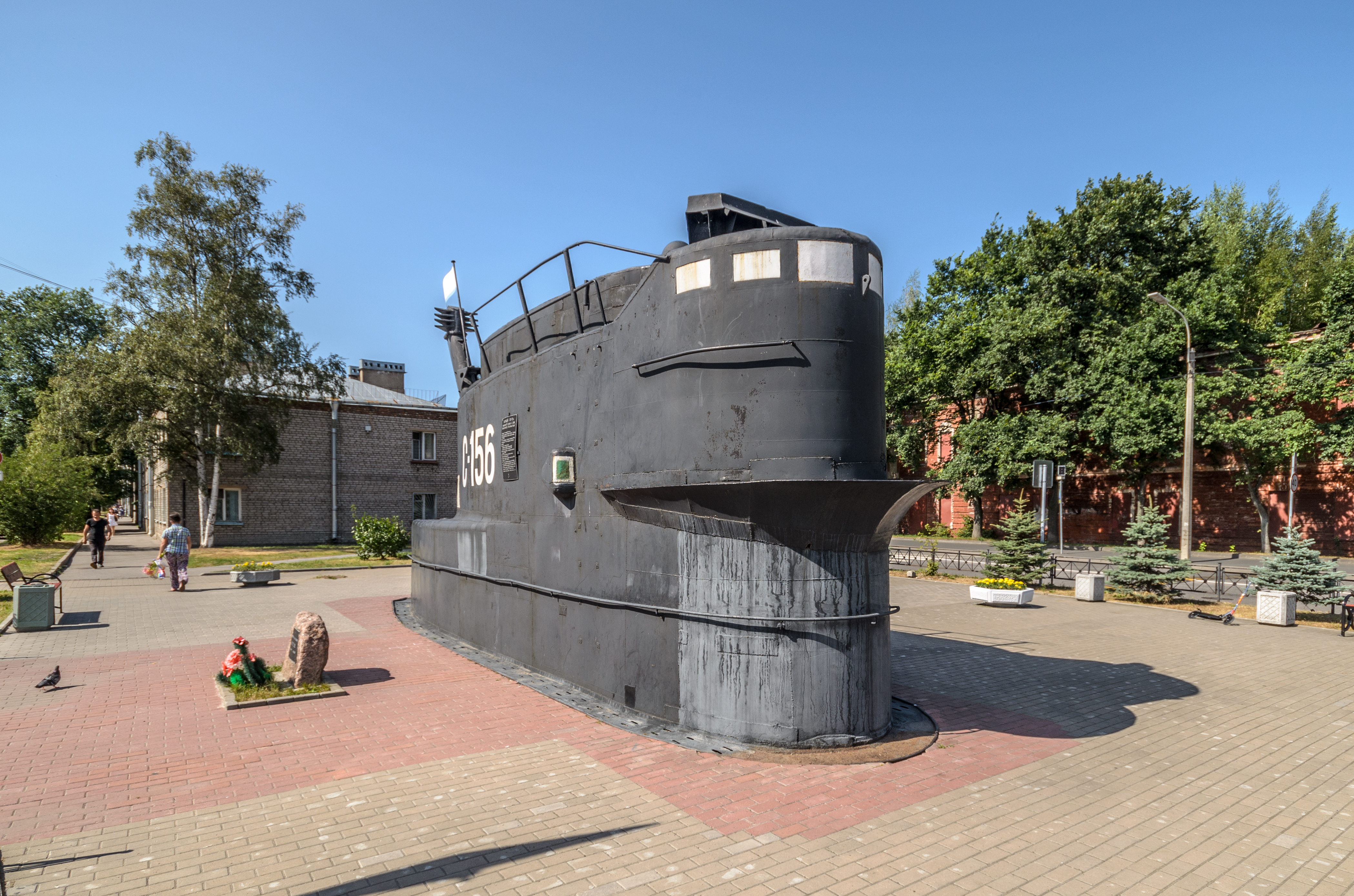 Memorial to Baltic Submariners in Kronstadt